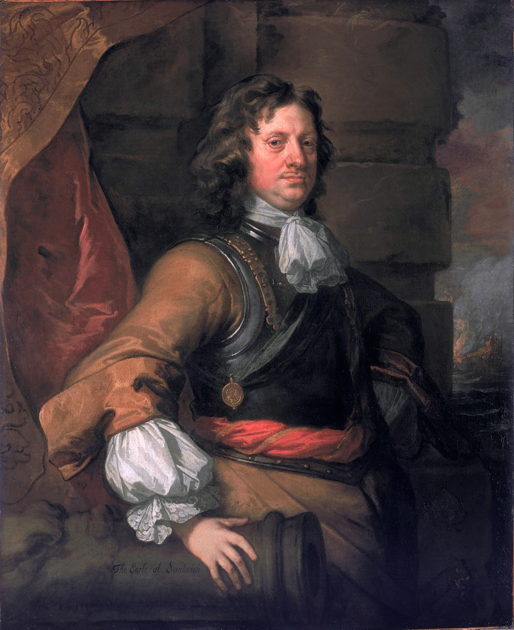 Edward Montagu, 1st Earl of Sandwich, (1625–1672)